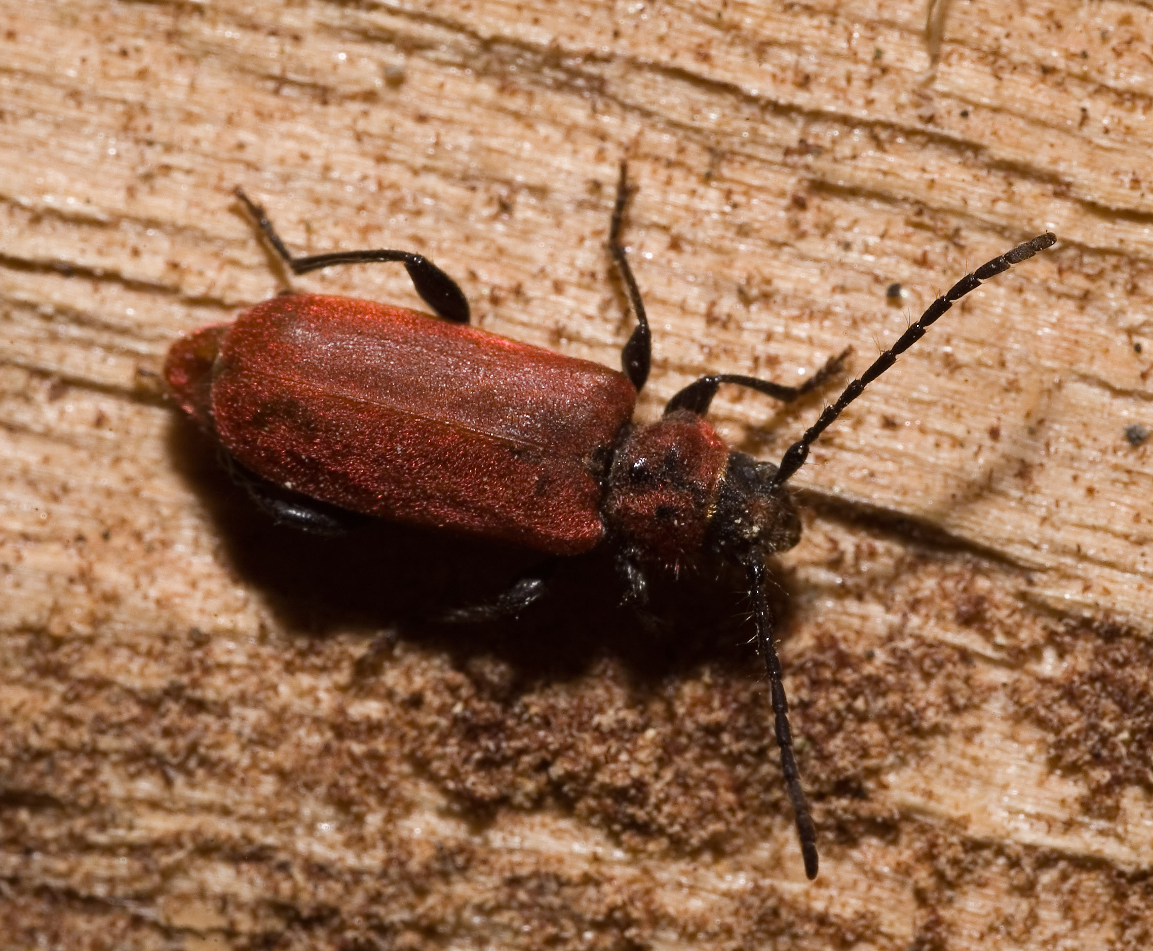 Pyrrhidium sanguineum (Linnaeus, 1758)